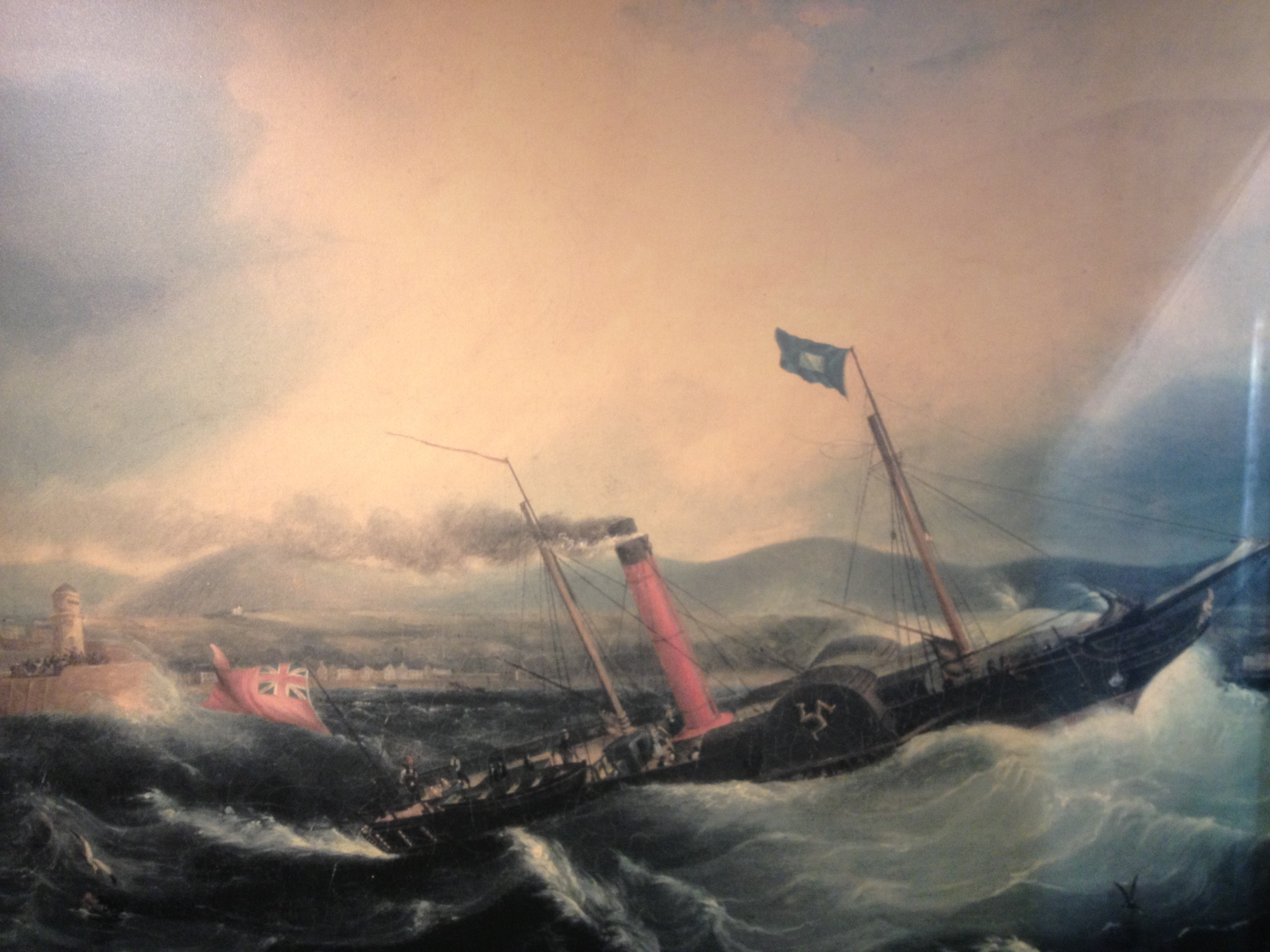 Mona's Isle leaving Douglas.